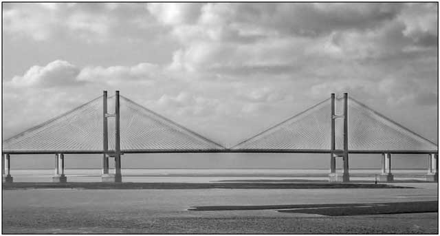 The second Severn Bridge A view of the second bridge shot from the first bridge